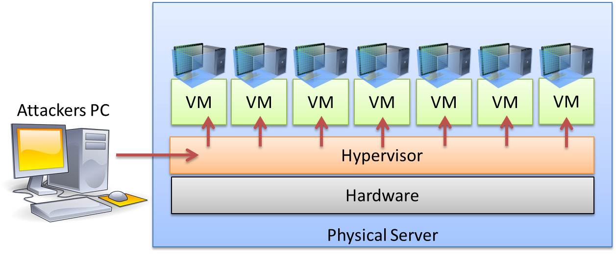 illustration of hyperjacking